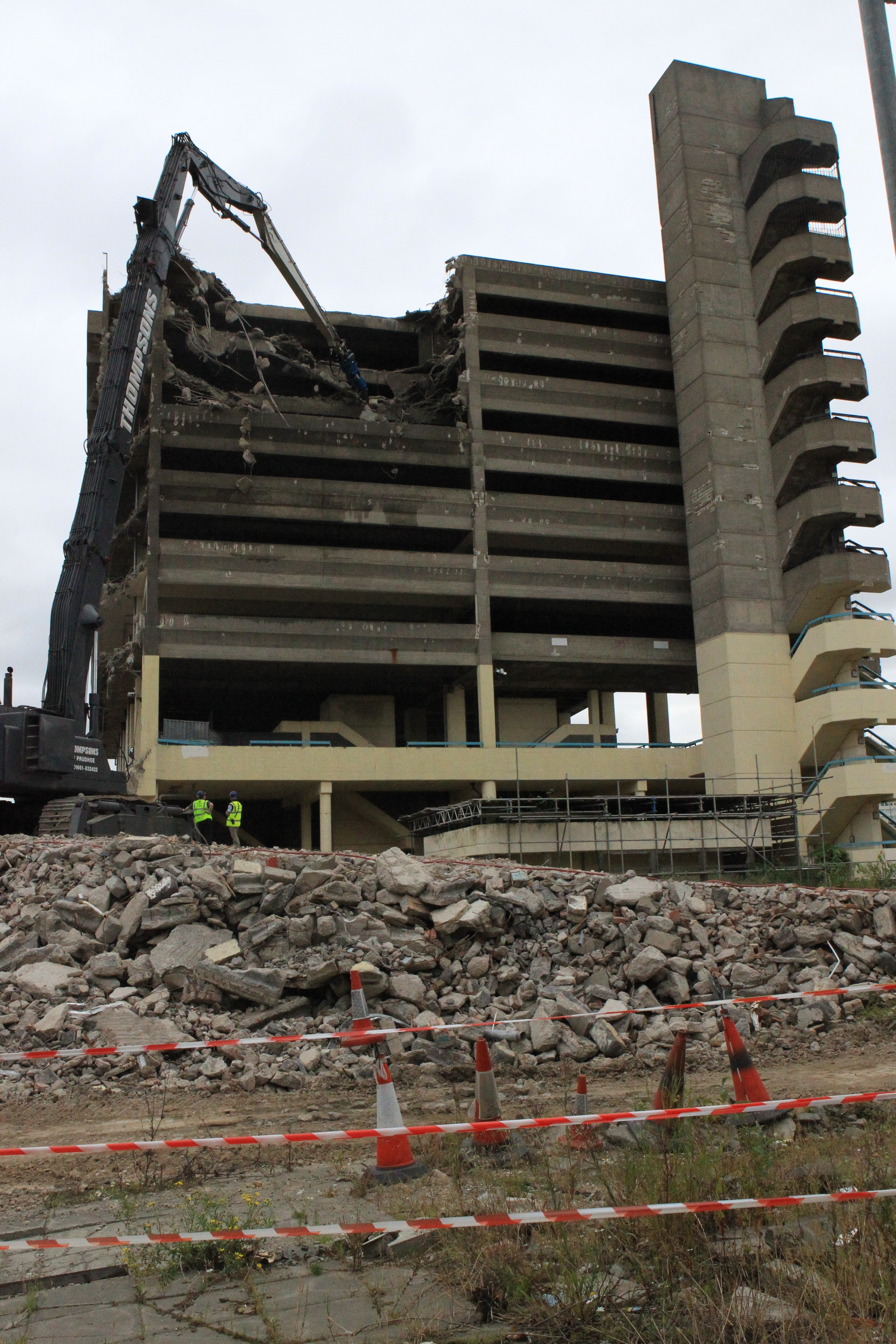 The first day of demolition on Gateshgead's Trinity Square Cas Park